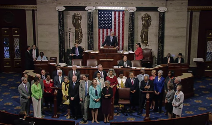 US House Democrats, led by Senior Chief Deputy Whip John Lewis, assume the floor to begin a sit-in to demand votes on gun safety legislation. 22 June 2016